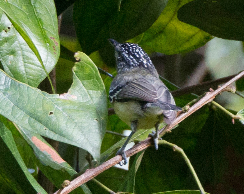 Yellow-breasted-antwren, Copalinga Ecolodge near Zamora, Ecuador